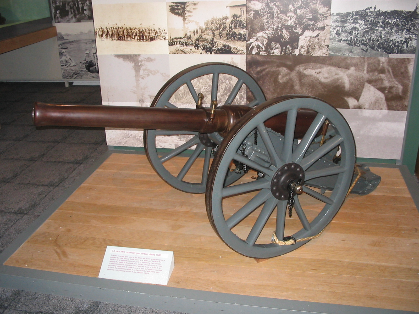 Photograph of British RML 2.5 inch Mountain Gun at the Royal Artillery Museum London.